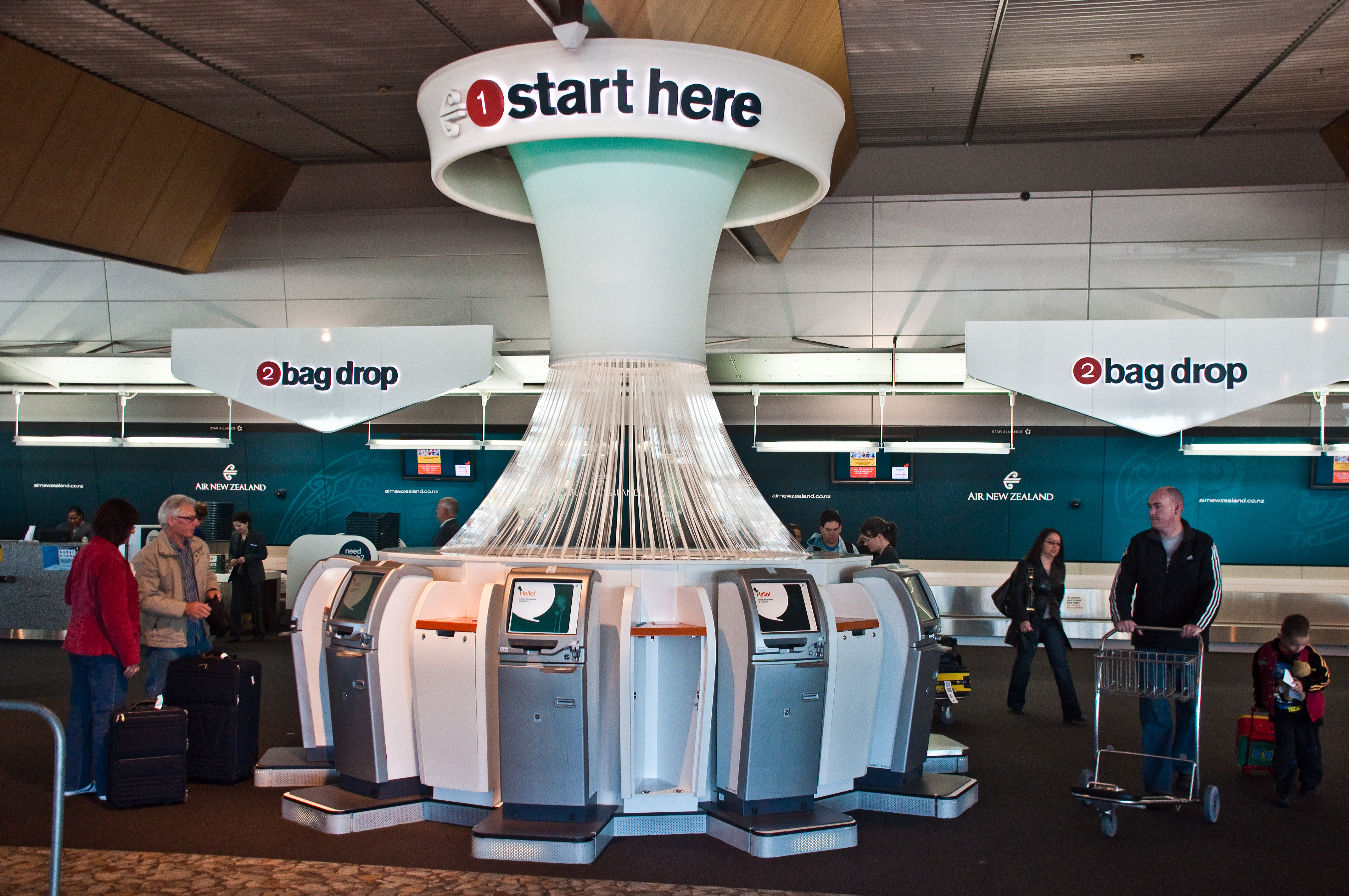 Air New Zealand self check-in centre, Wellington Airport